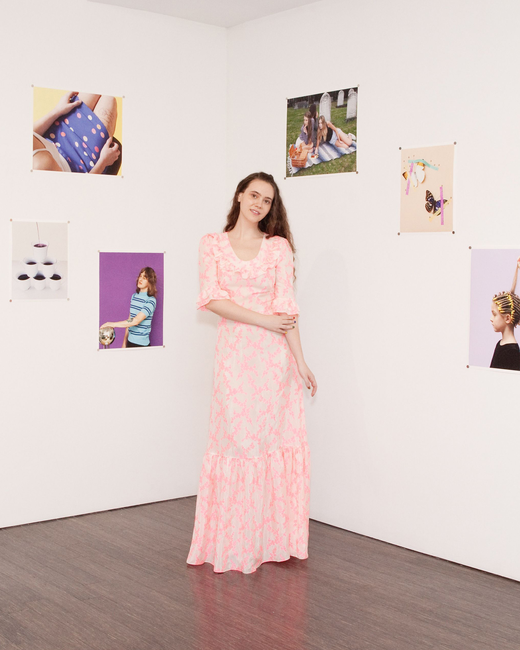 Olivia Locher at Steven Kasher Gallery September 2017.